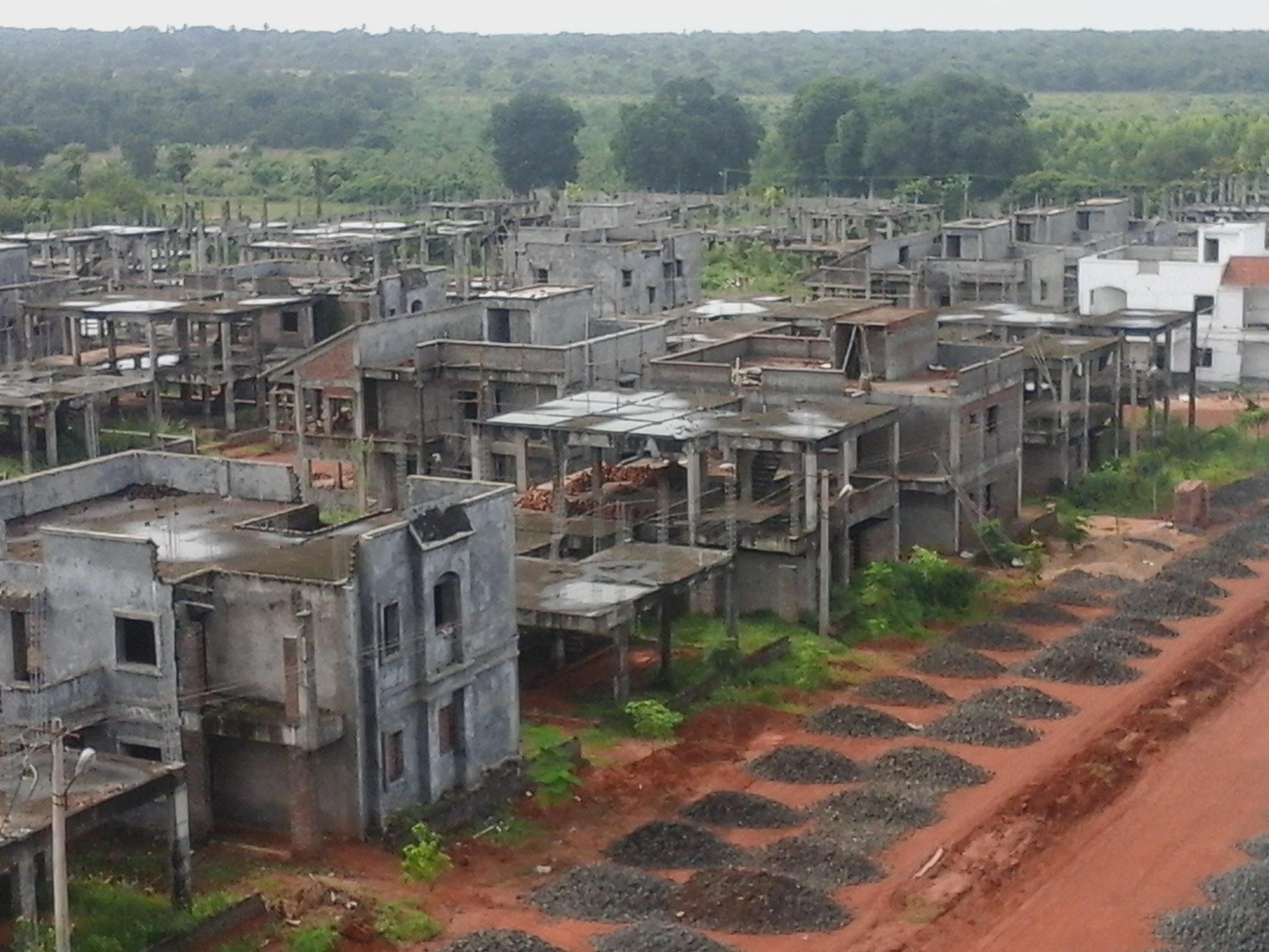 This picture shows unfinished villas being built in Bridge County, Rajahmundry. The road beside is also being made simultaneously. Picture was taken in September 2015.